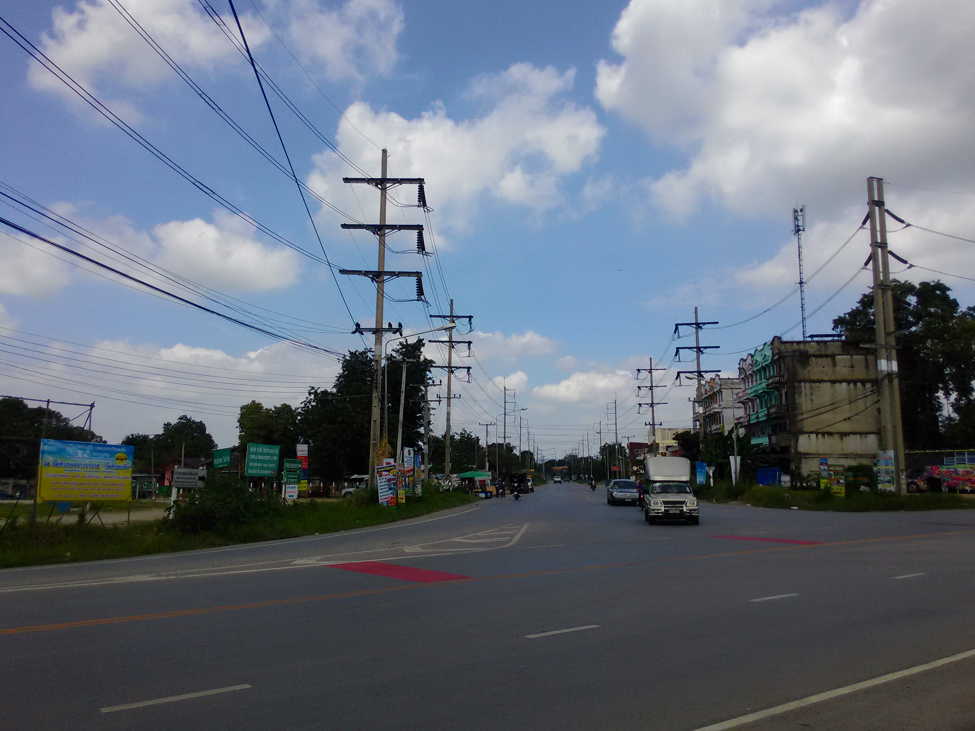 The 3-way junction on Sut Banthat Road in Ban Kaeng Khoi Nuea, Tambon Banpa, Kaeng Khoi District, Saraburi Province, Thailand